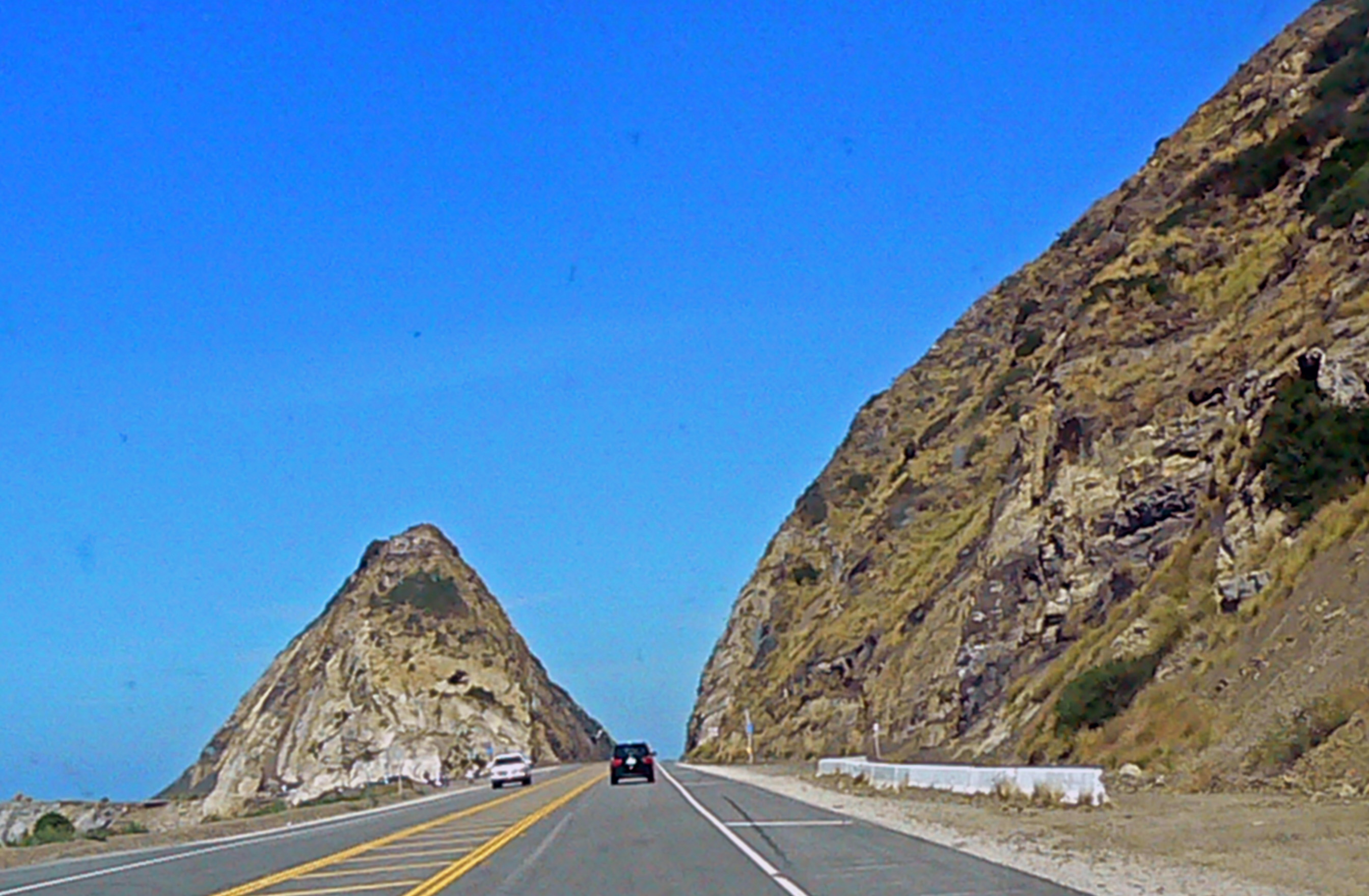 Highway 1 at Point Mugu, in Point Mugu State Park, Southern California. Famous part of road used in many car commercials — between Oxnard and Malibu.